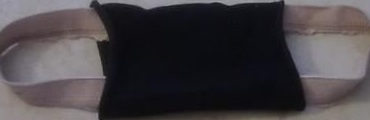 A gaff used to hide the mooseknuckle aka manbulge; usually used by males with body dysmorphia, male crossdressers and transwomen